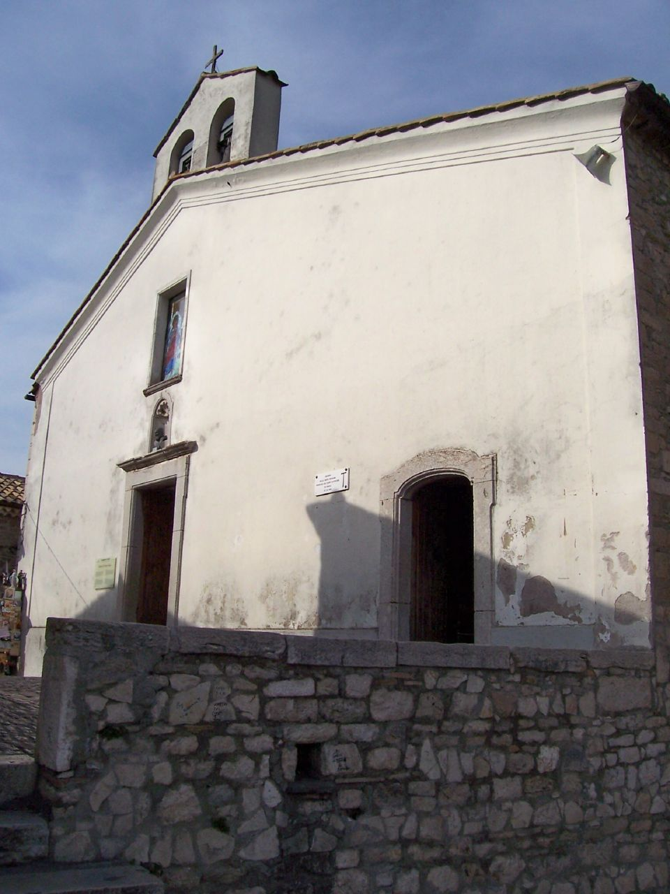 St. Anne's Church, Pietrelcina, Benevento, Campania, Italy